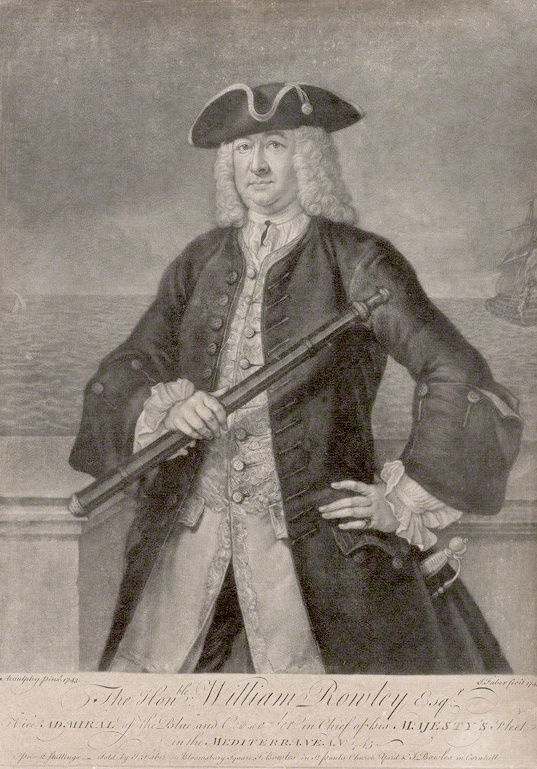 Portrait of Admiral Sir William Rowley